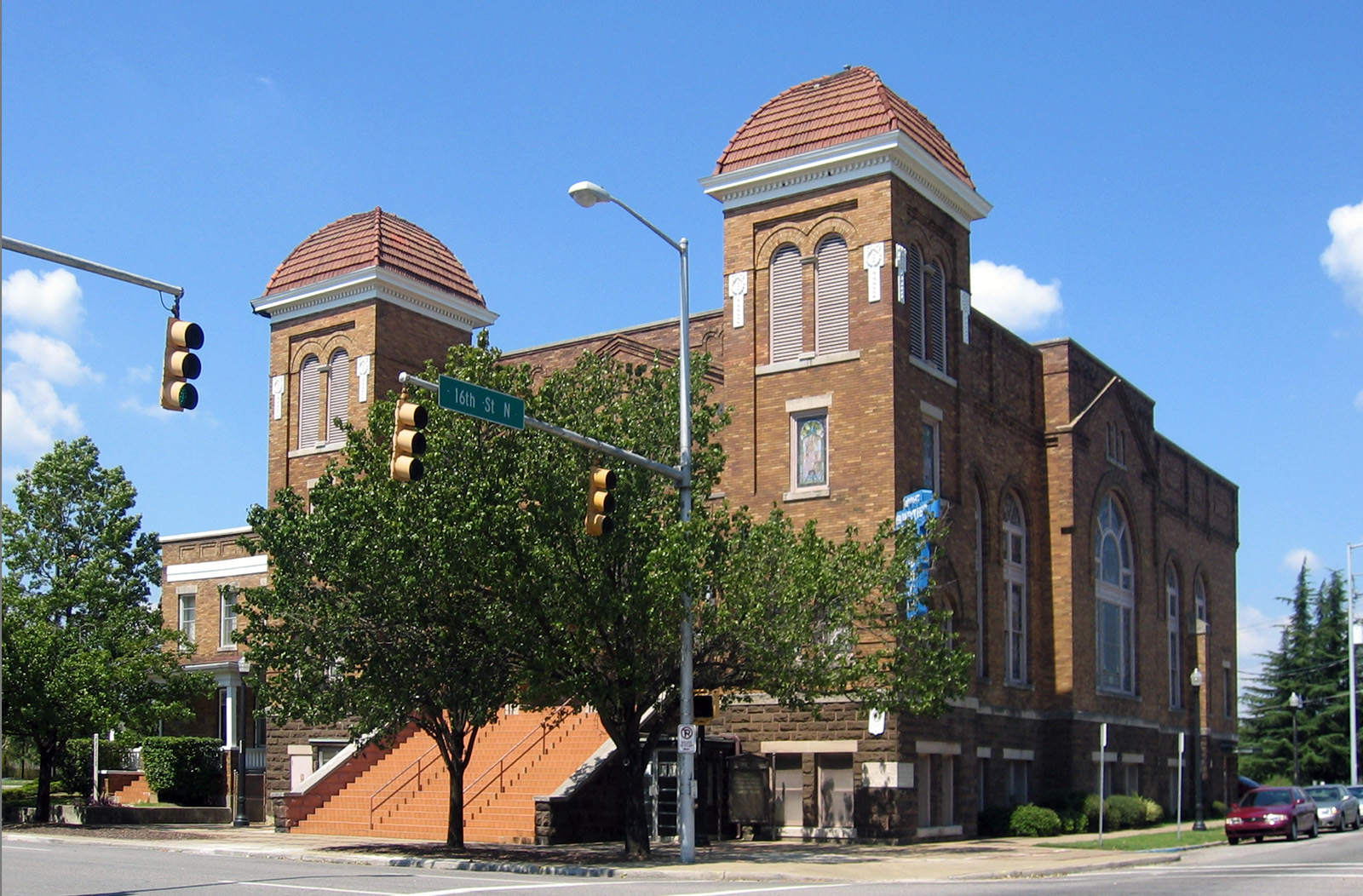 16th Street Baptist Church in Birmingham, Alabama, photographed using a Canon Powershot S410 digital camera.